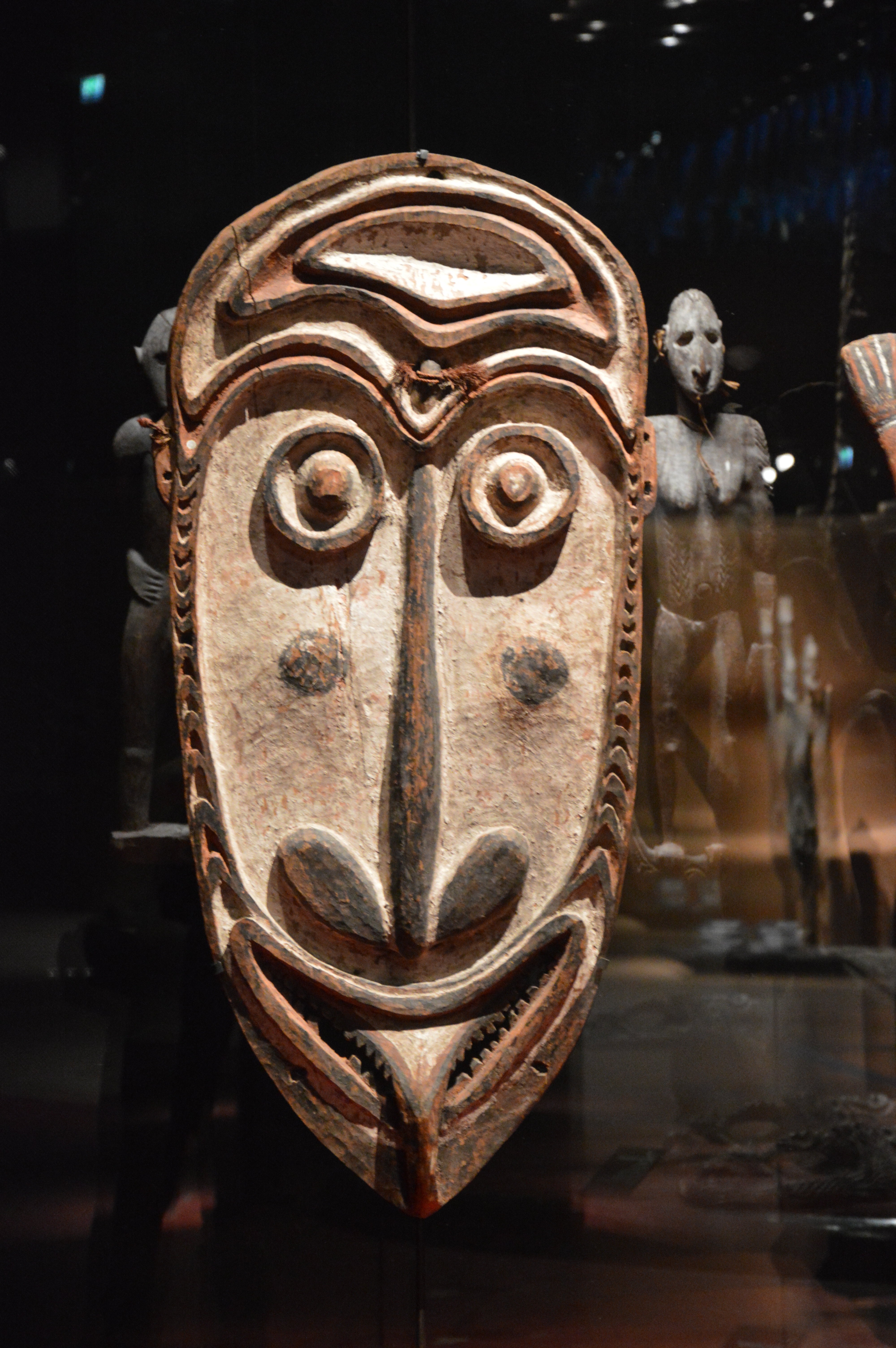 Mask. Chambri. Papua New Guinea.